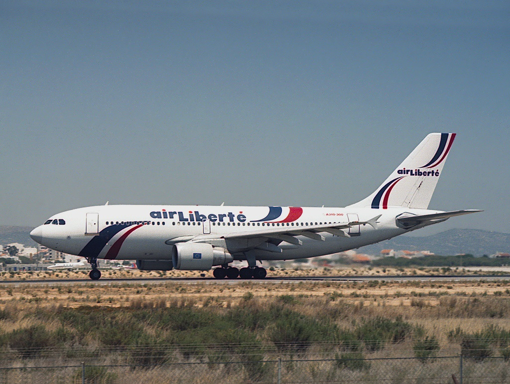 Air Liberté Airbus A310-324 F-GHEJ at Faro Airport